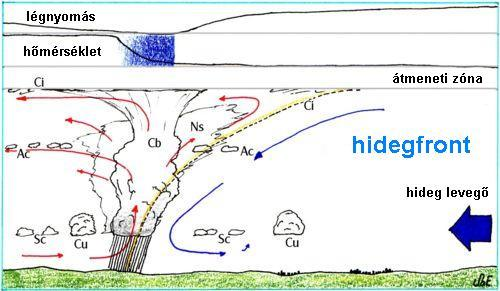 Hidegfront - Kaltfront